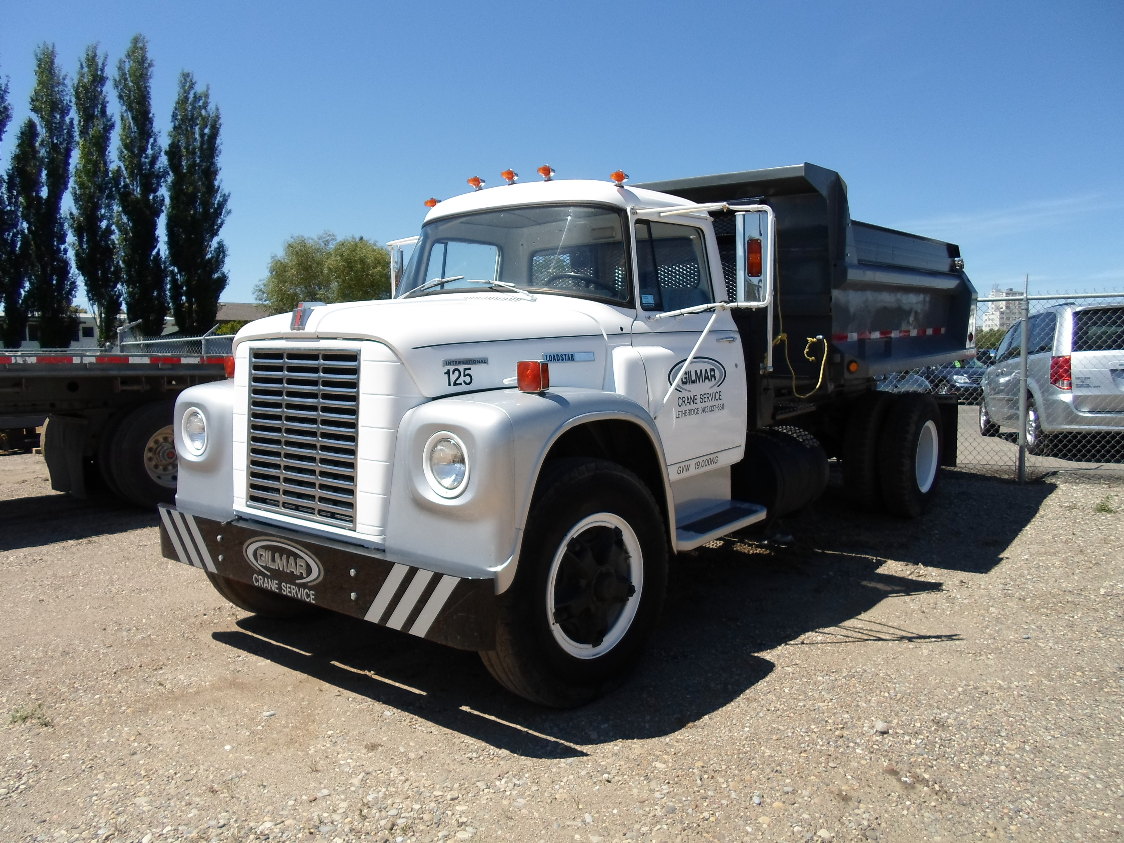 International Loadstar dump truck with a mild two tone paint.